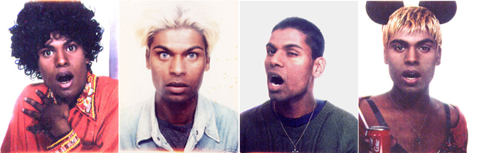 Photo booth images by the artist published in DVD by Live Art Development Agency